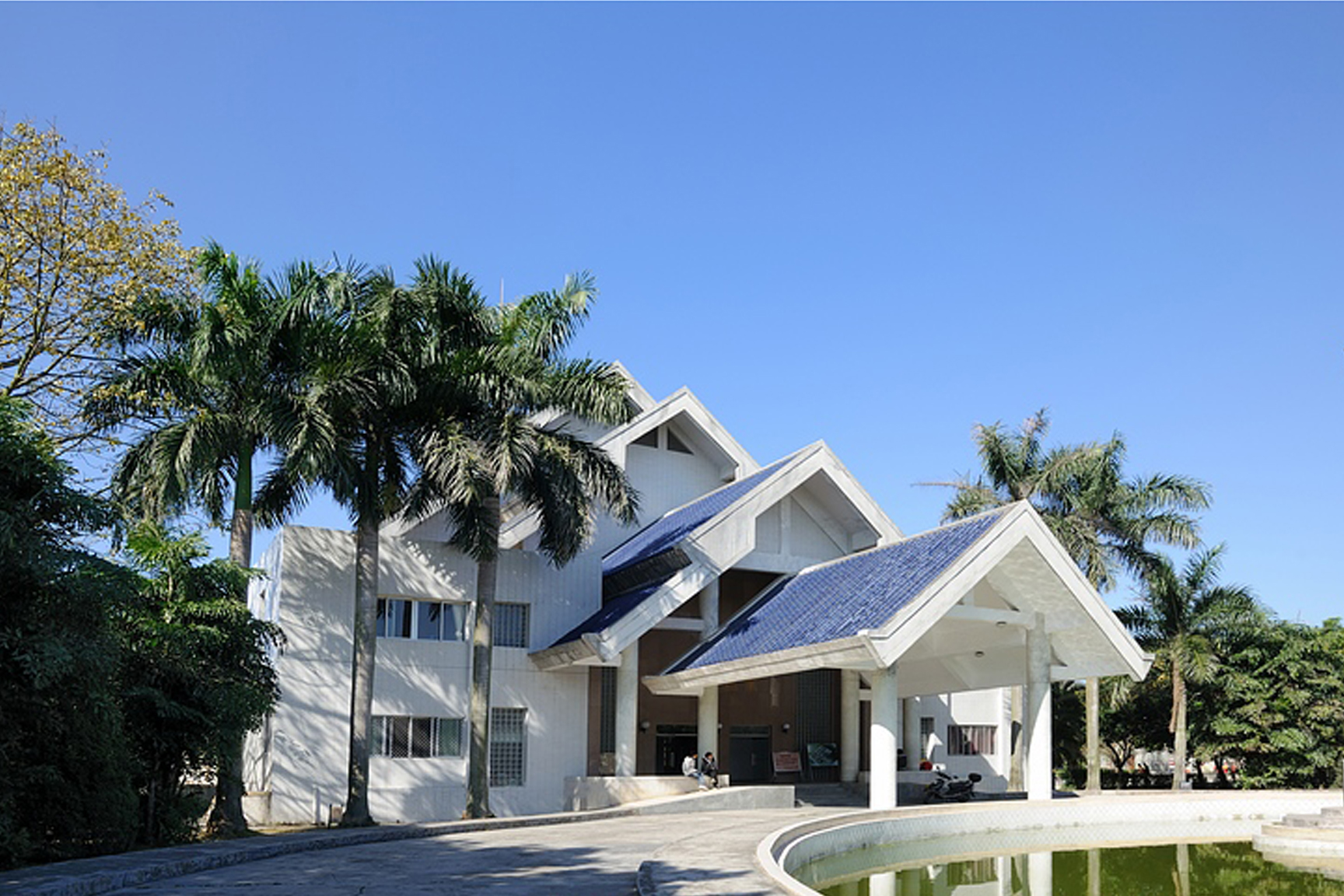 A view of Puning professional school